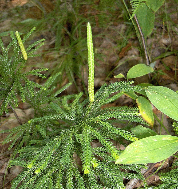 Fir clubmoss